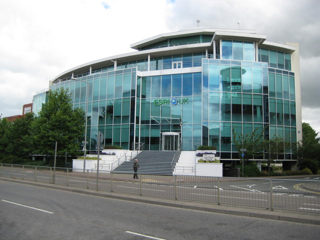 Aylesbury: ESRI UK, Millennium House, Walton Street No walk down Walton Street for Geograph would be complete without recording the UK Head Office of ESRI , who are suppliers of GIS (Geographic Information Systems). ESRI, which stands for Environmental Systems Research Institute, Inc., was founded in 1969. The company's worldwide headquarters are "anchored", to use their own term, in a multicampus environment in Redlands, California, U.S.A.